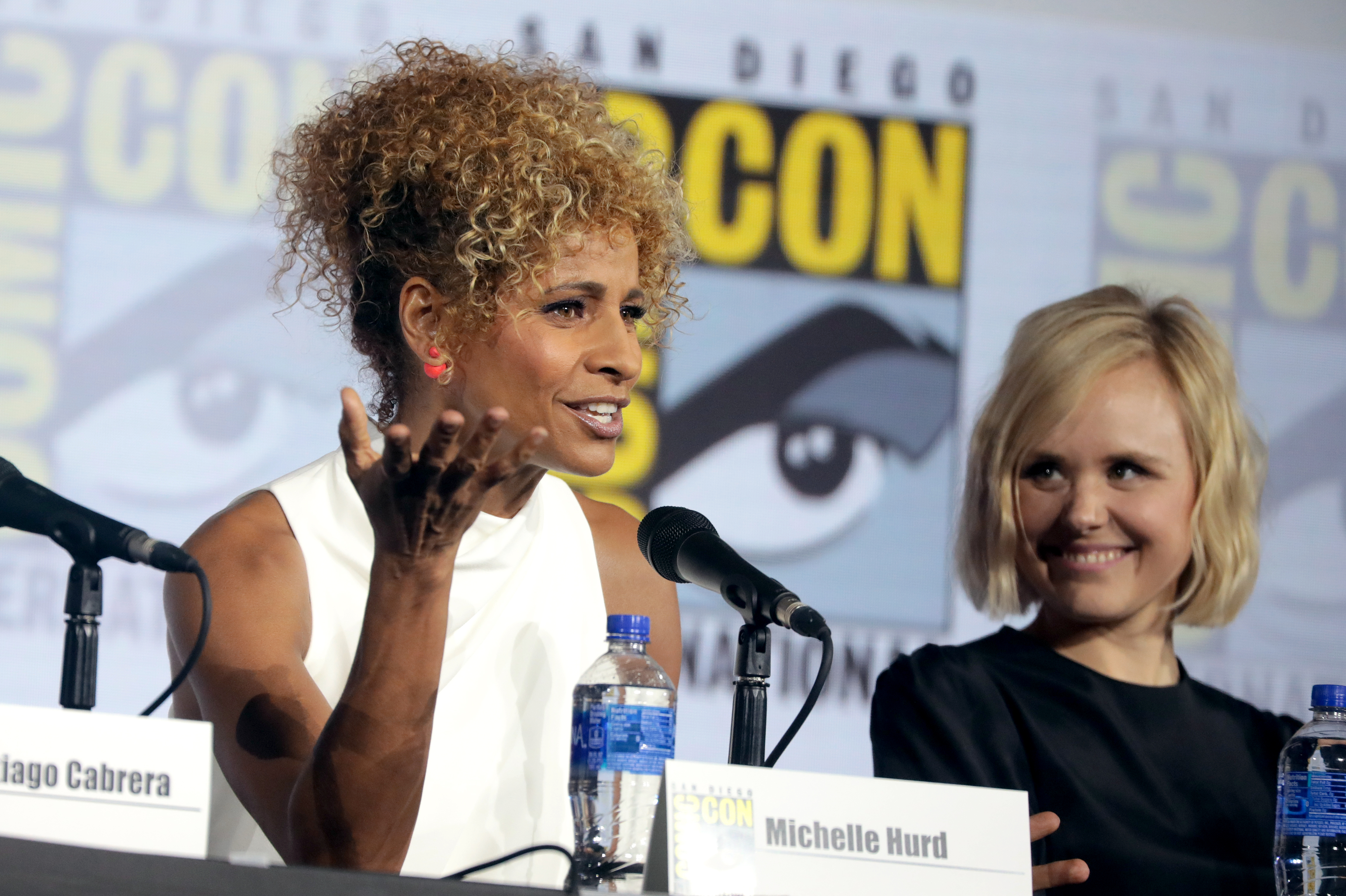 Michelle Hurd and Alison Pill speaking at the 2019 San Diego Comic Con International, for "Star Trek: Picard", at the San Diego Convention Center in San Diego, California.